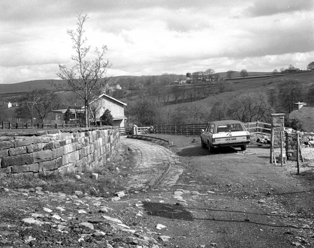 Trawden tram terminus. See 625241. At the upper end of the Traden private right of way, where the trams terminated, a small fragment of rail still remained in 1983, some 55 years after the last tram had run to Trawden.